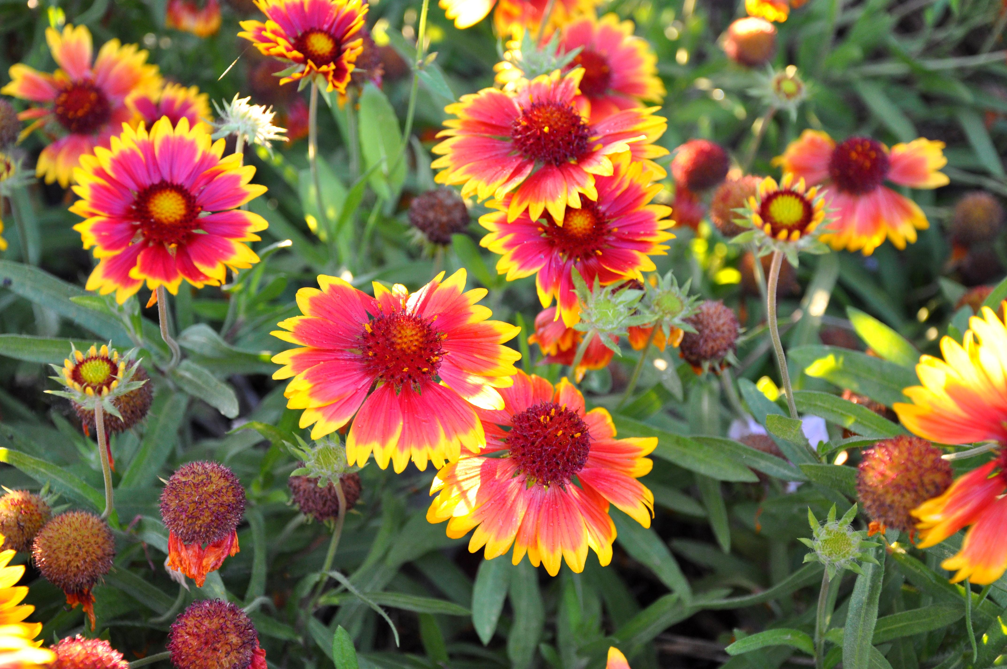 Taken in Jerusalem